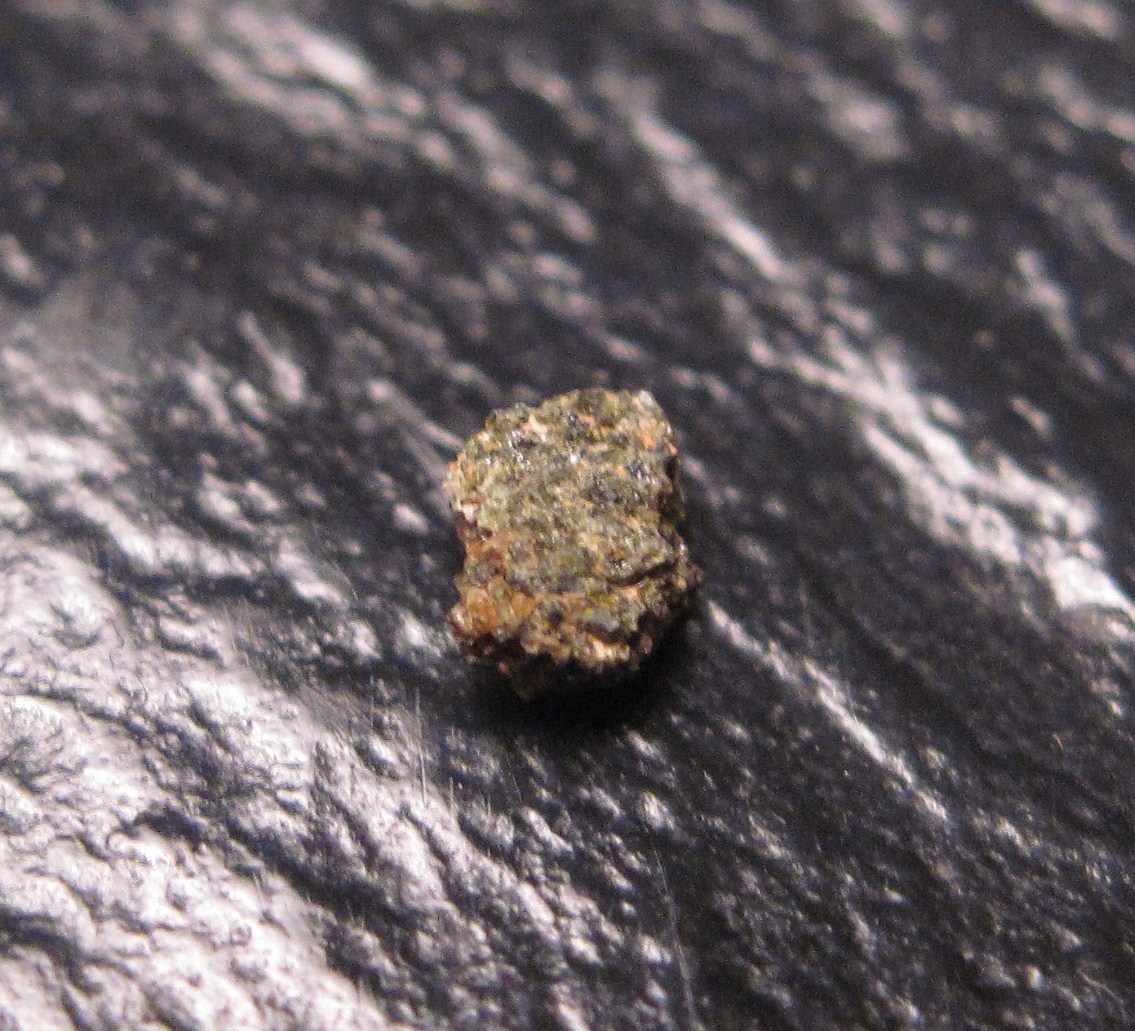 NWA 998 meteorite was discovered in 2001 and is classified as an orthopyroxene nakhlite. The TKW of this find is 456 grams.